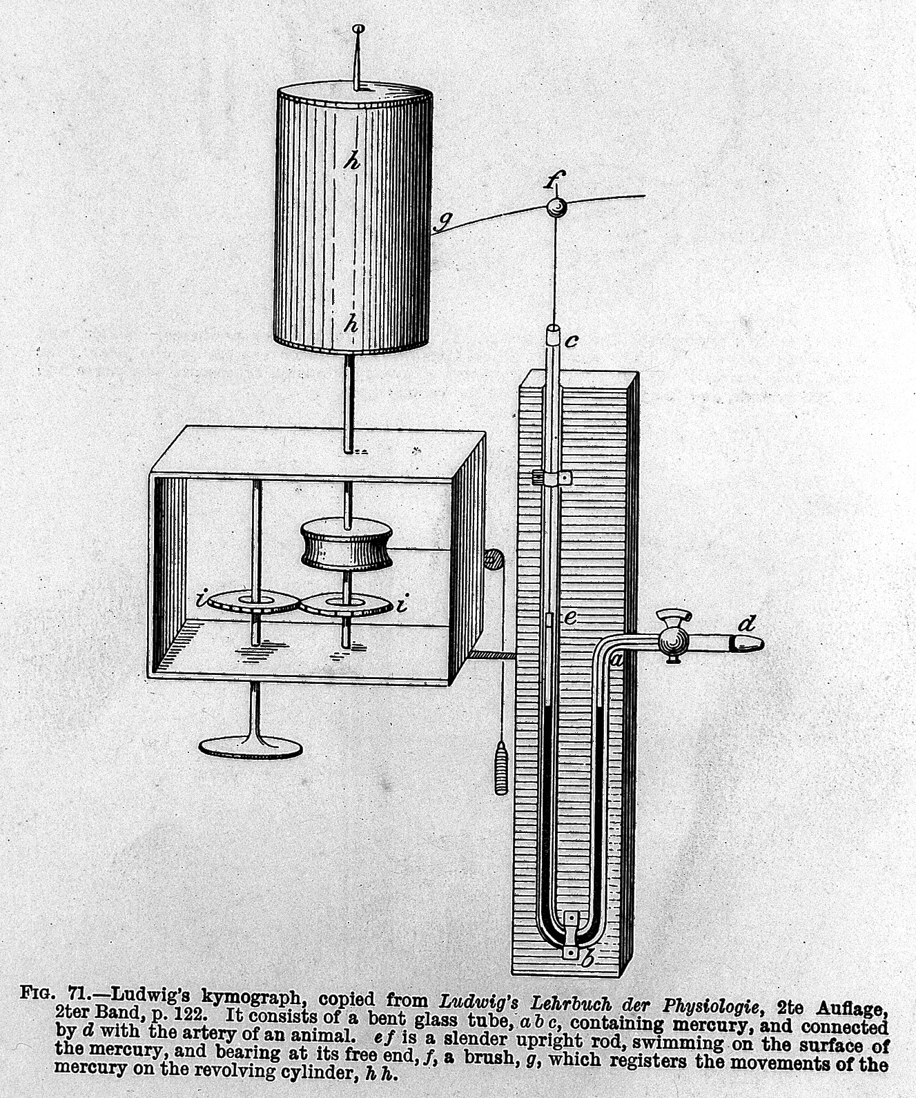 Carl F. W. 'Ludwig's kymograph', invented circa 1847 From Sir L Brunton's Therapeutics General Collections Keywords: Carl Friedrich Wilhelm Ludwig